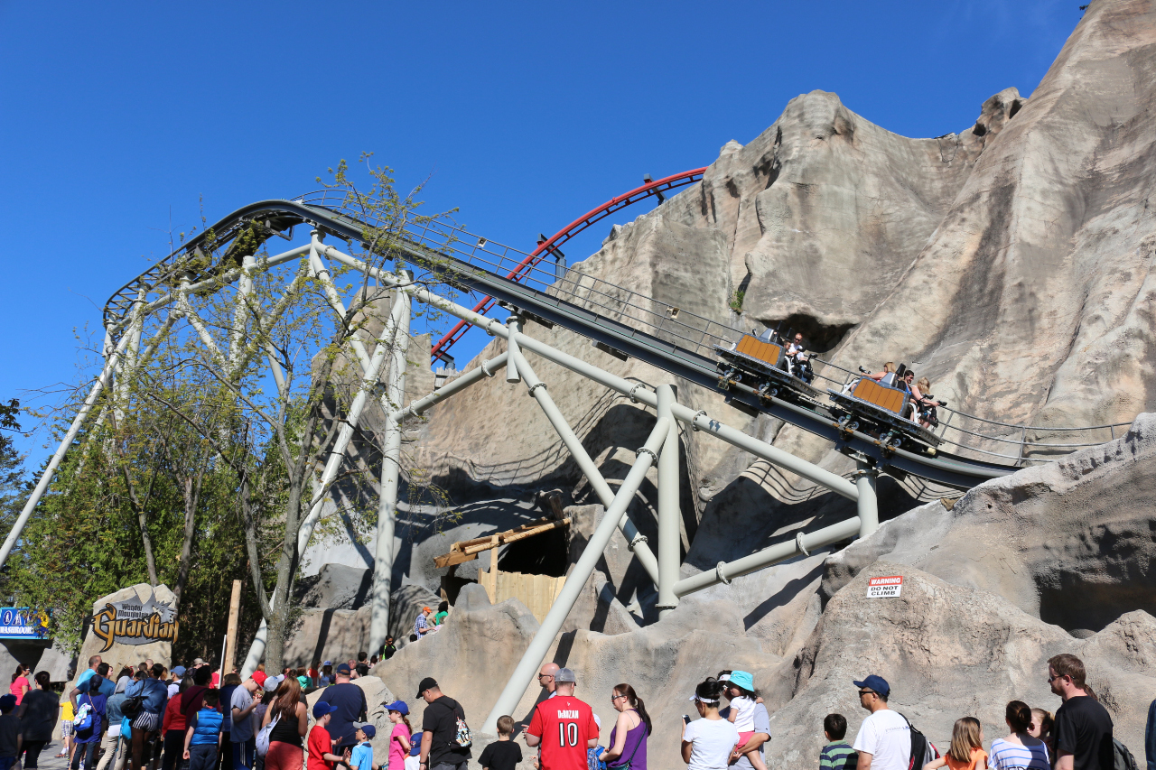 This is a photo of Guardian's lift hill at Canada's Wonderland.